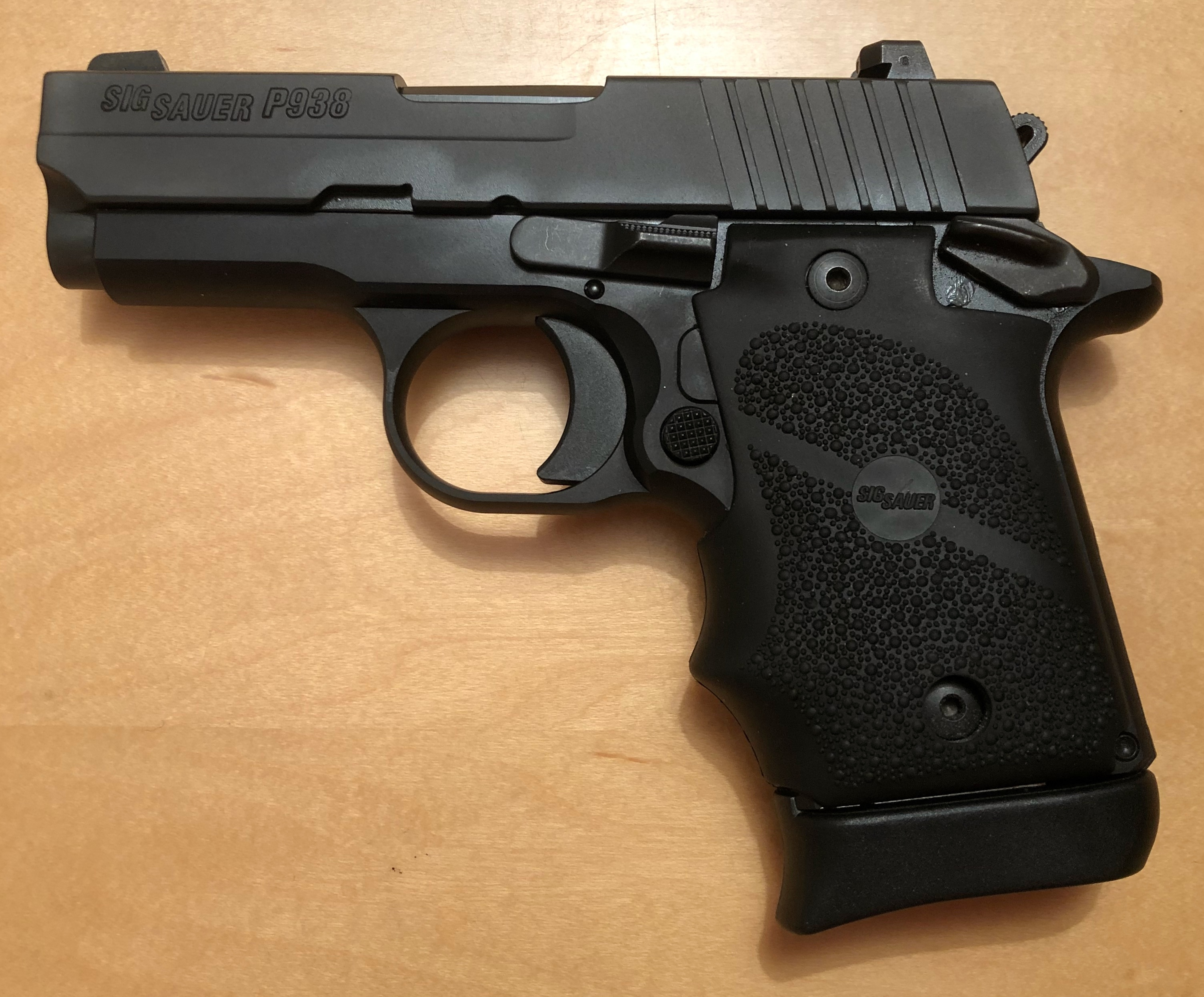 The SIG Sauer P938 is a subcompact single-action pistol chambered for the 9×19mm Parabellum cartridge, manufactured by SIG Sauer and introduced at the 2011 SHOT Show. This photo shows a P938 with an extended (seven-round) magazine inserted.